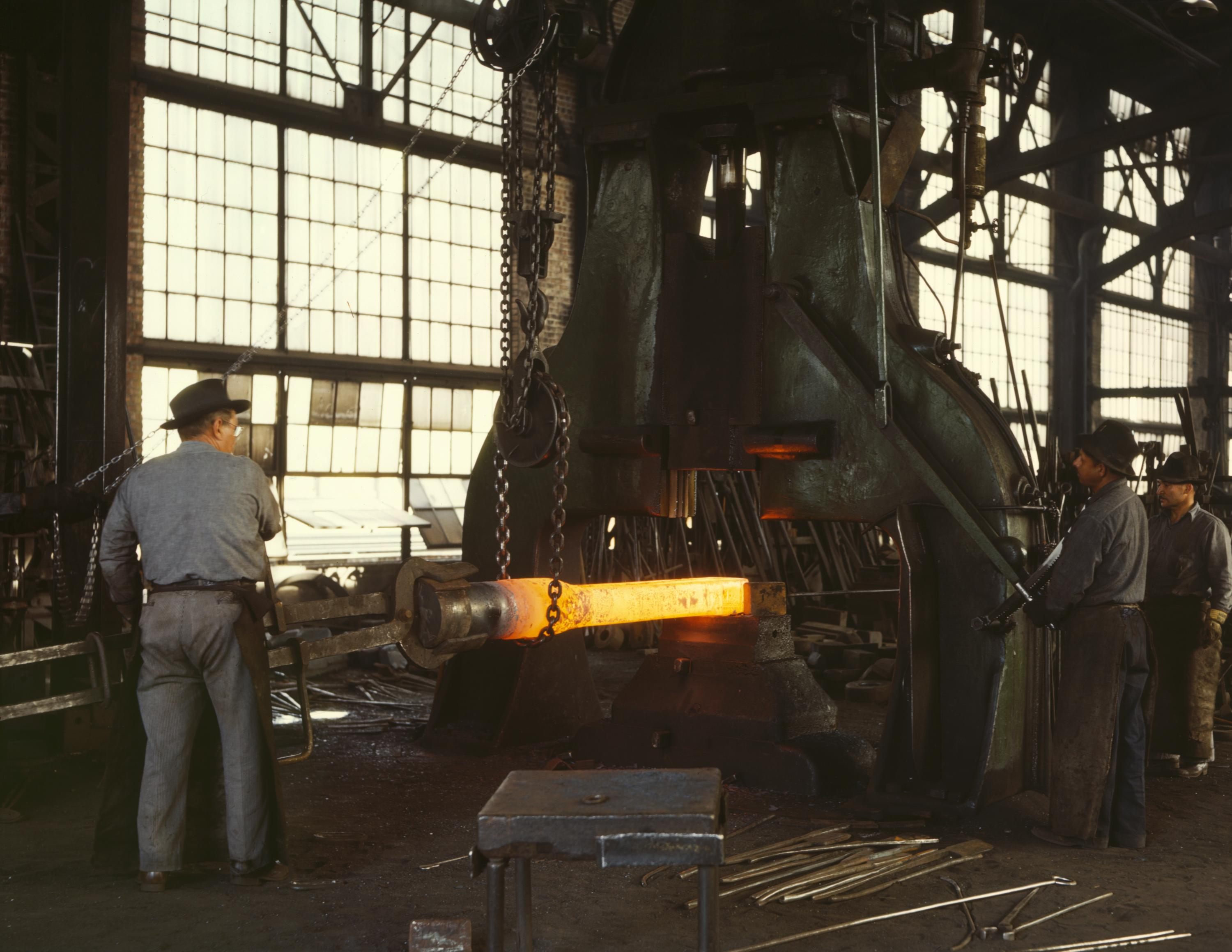 Hammering out a draw bar on the steam drop hammer in the blacksmith shop, Santa Fe R.R. shops, Albuquerque, NM